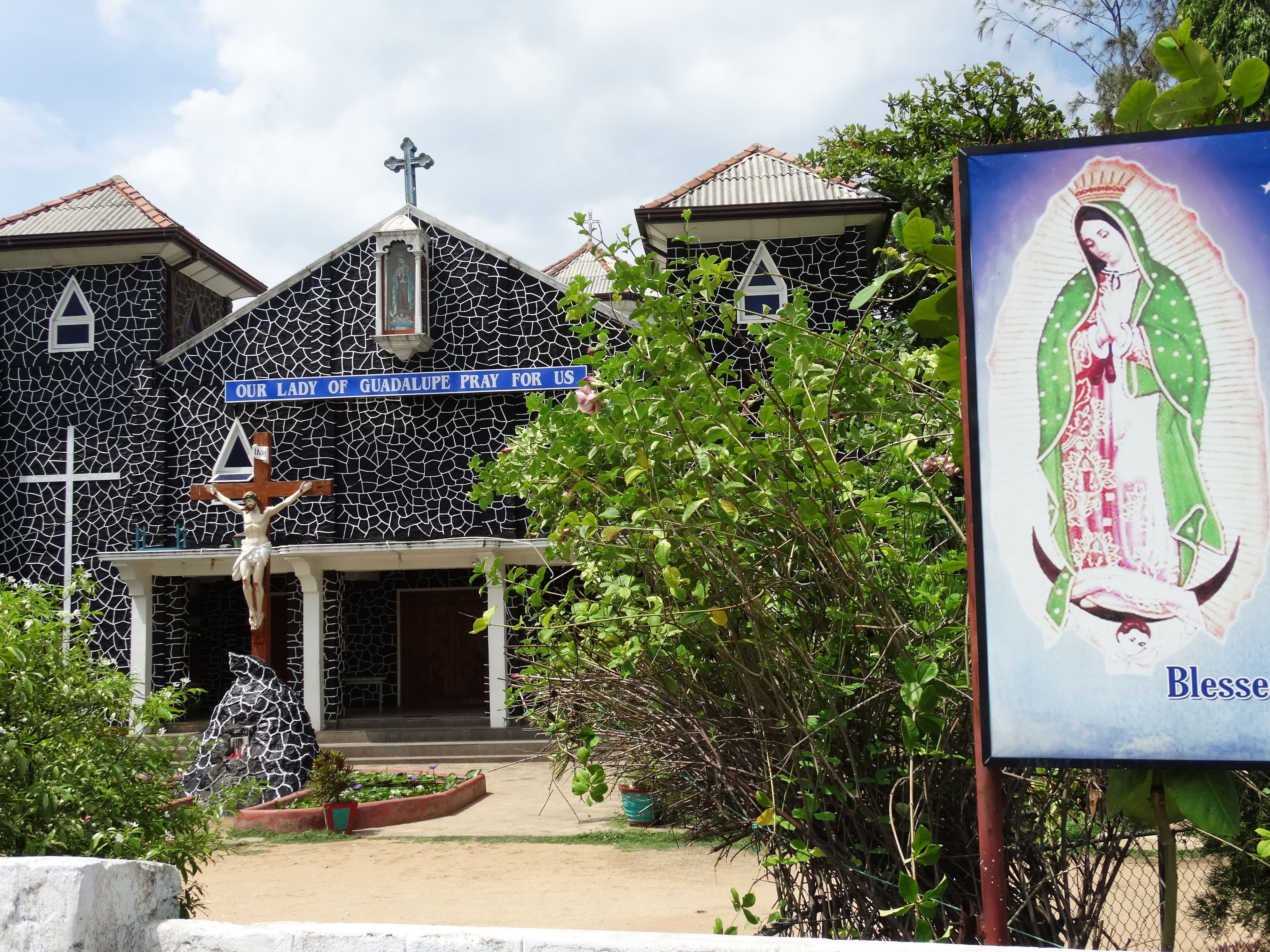 Our Lady of Guadalupe Church - Trincomalee - Sri Lanka